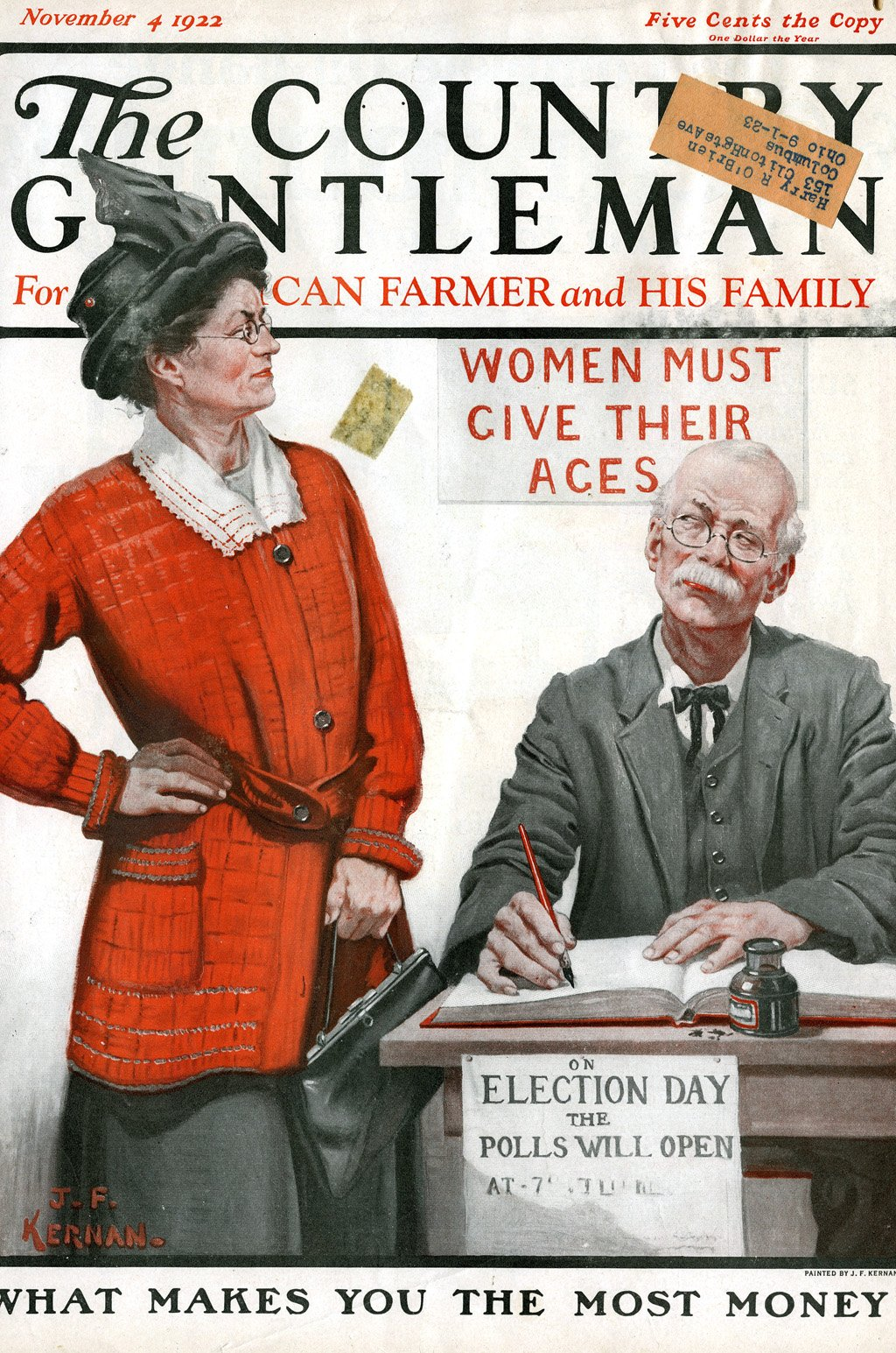 "Country Gentleman" magazine cover, November 1922. The 19th Amendment giving all women the right to vote wasn't ratified until August 1920.